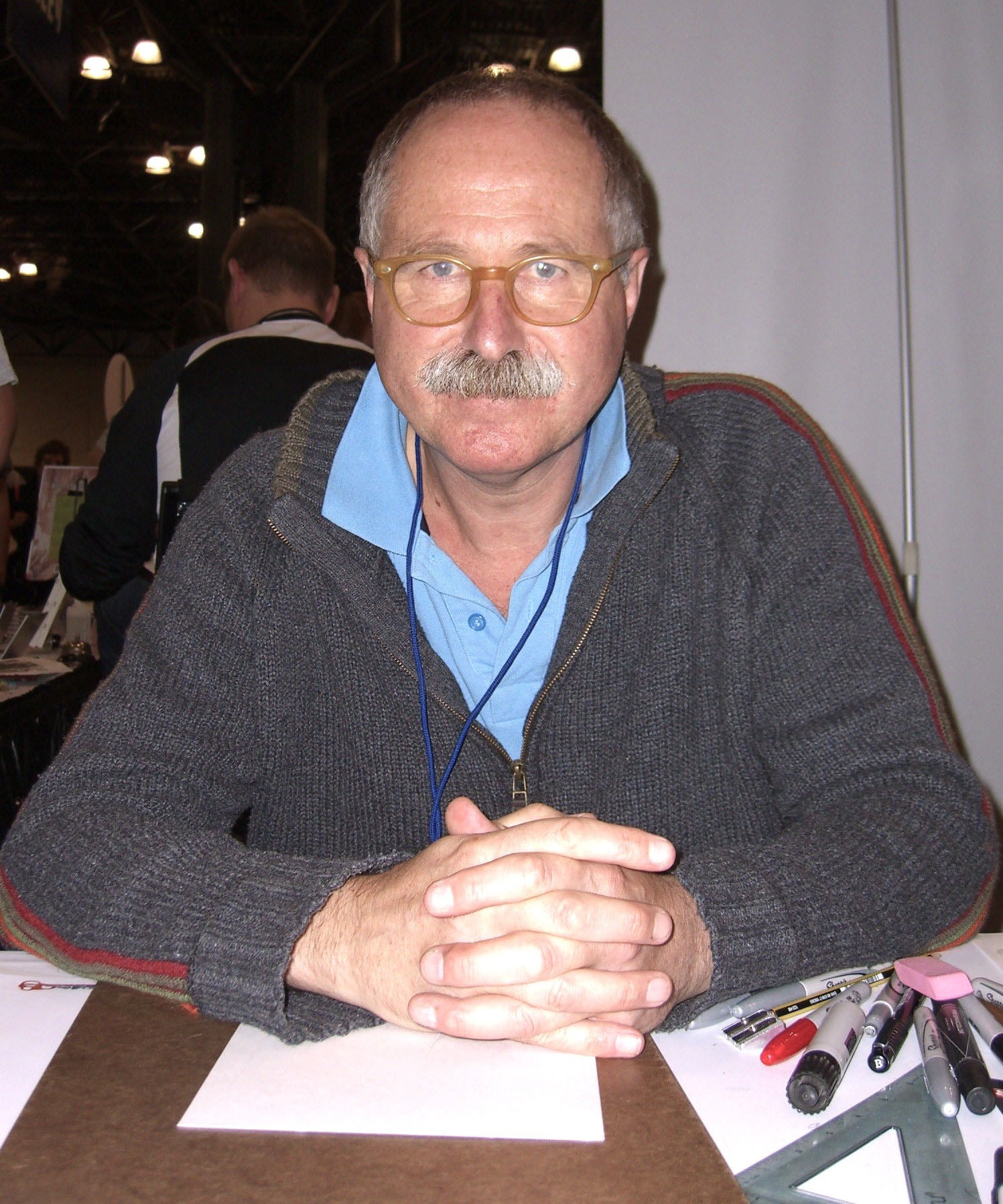 Comic book creator Brian Bolland, at the New York Comic Convention in Manhattan, October 9, 2010. This photo was created by Luigi Novi. It is not in the public domain, and use of this file outside of the licensing terms is a copyright violation.